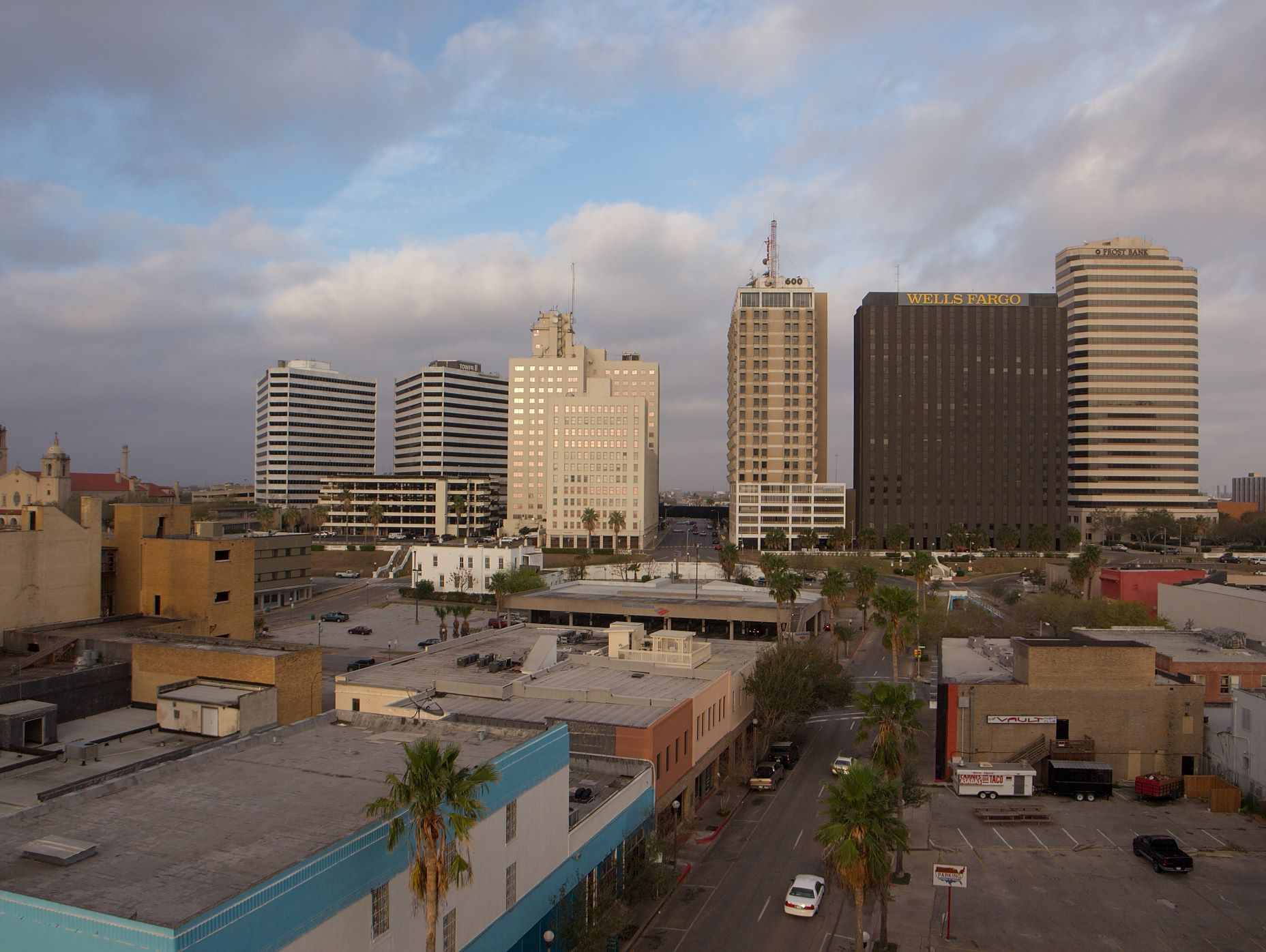 Ross_090226_p2260033